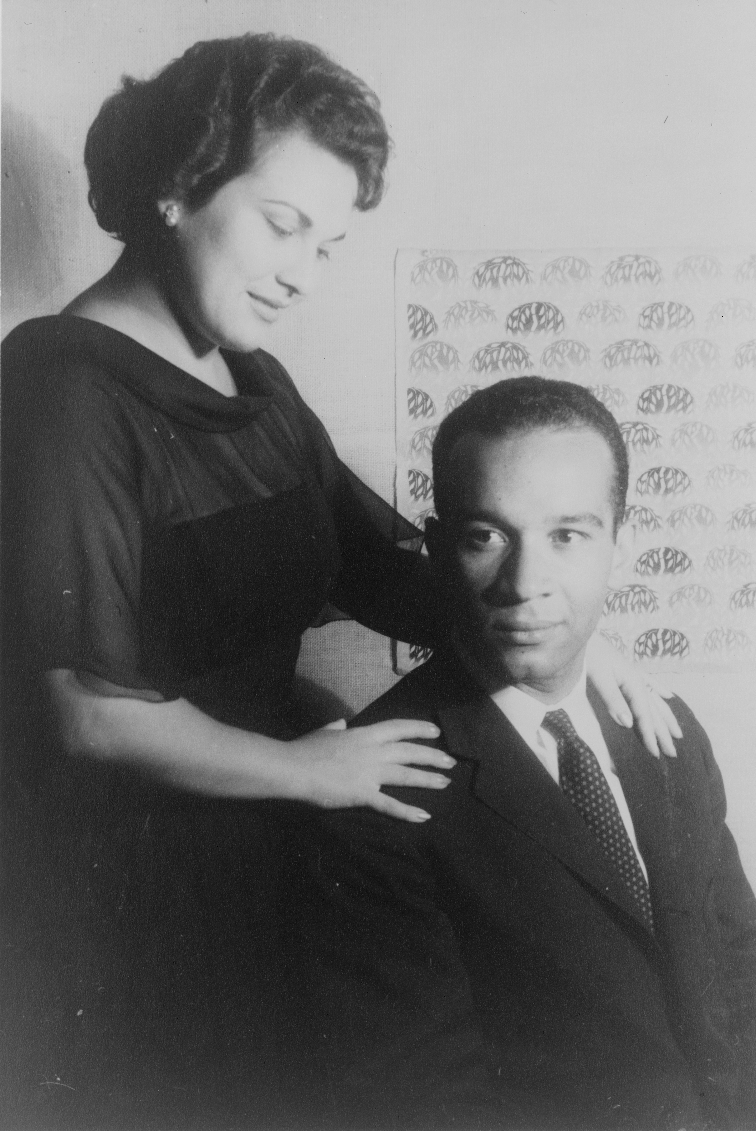 Marilyn Horne, American opera singer (left), and Henry Lewis, American conductor and bassist Portrait of Marilyn Horne and Henry Lewis